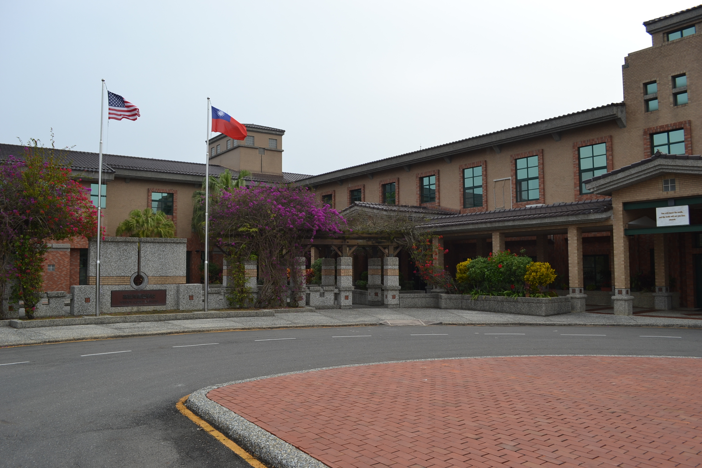 Photo of the front of the school - Elementary Courtyard